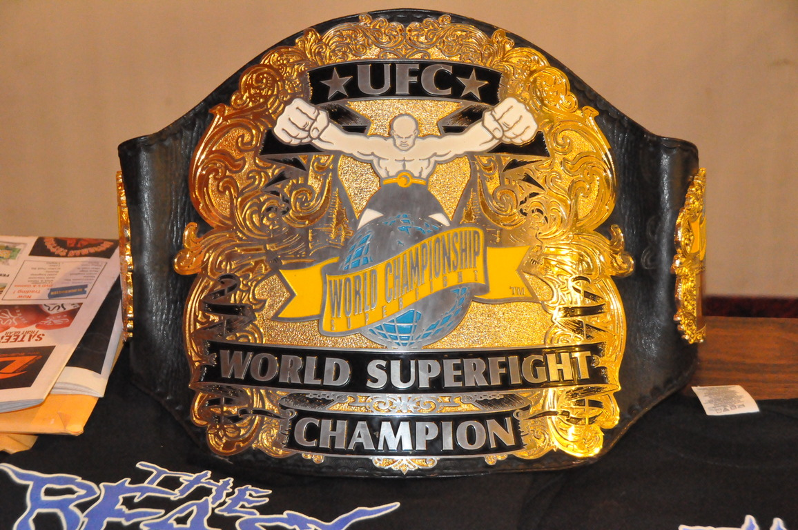 UFC Belt belonging to Dan Severn